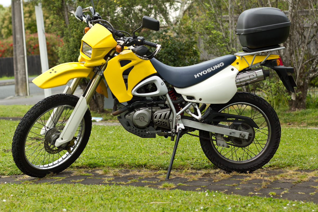 Image of a 2001 Hyosung XRX125 motorcycle